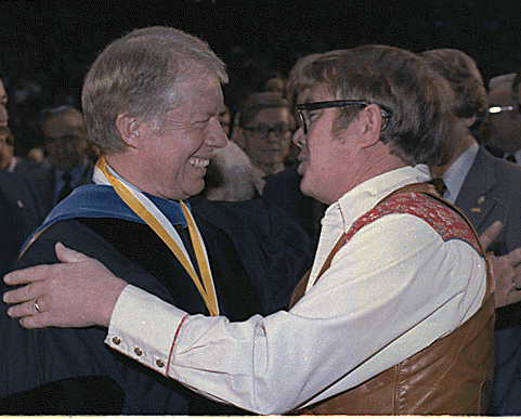 Jimmy Carter greets his brother, Billy Carter, at the commencement ceremonies at Georgia Institute of Technology in Atlanta, GA., 02/20/1979 Trimmed version of ARC Identifier: 183602